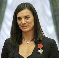 Elena Isinbaeva in Kremlin